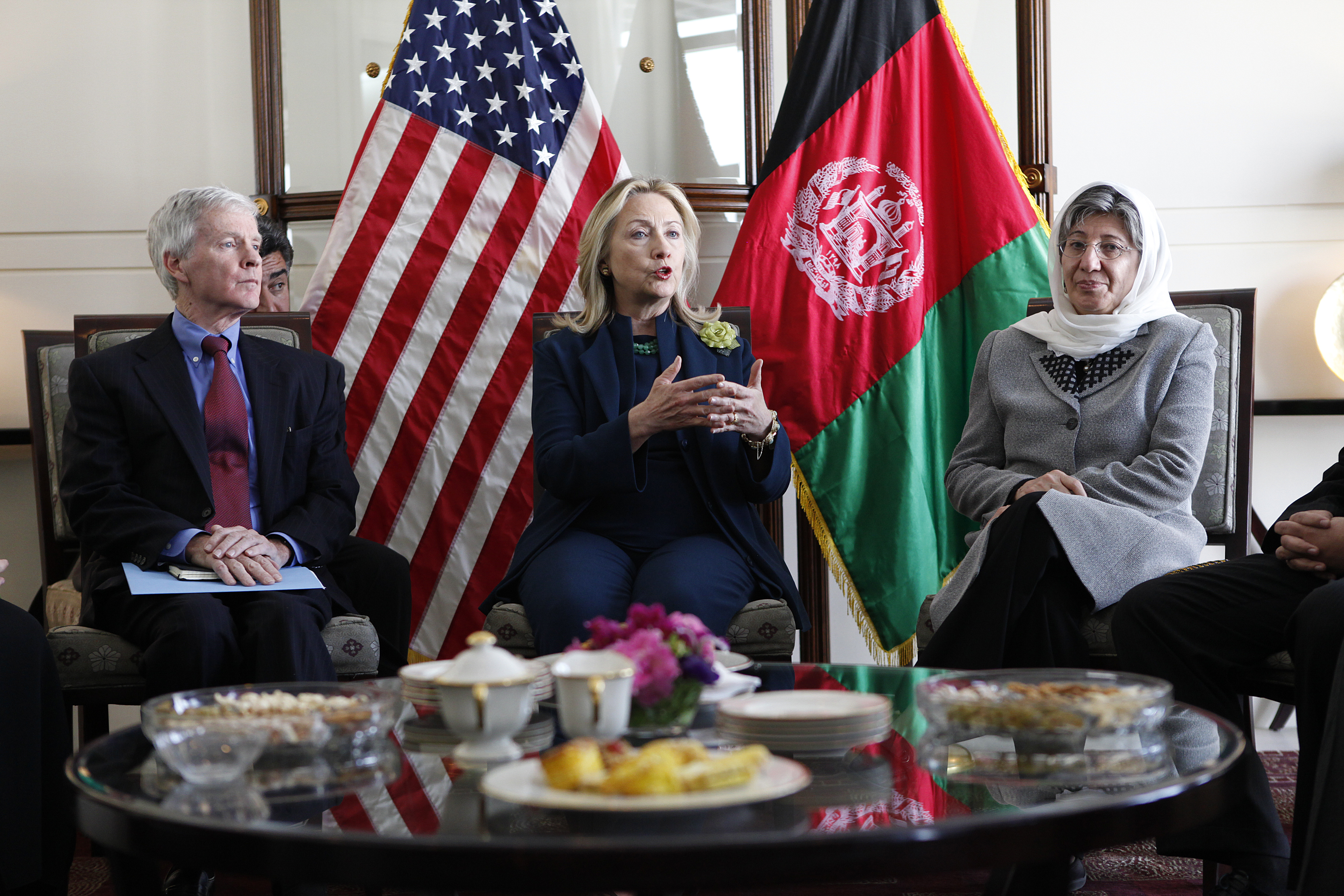 U.S. Secretary of State Hillary Rodham Clinton and U.S. Ambassador Ryan Crocker meet with Afghan civil society leaders at the U.S. Embassy in Kabul, Afghanistan.